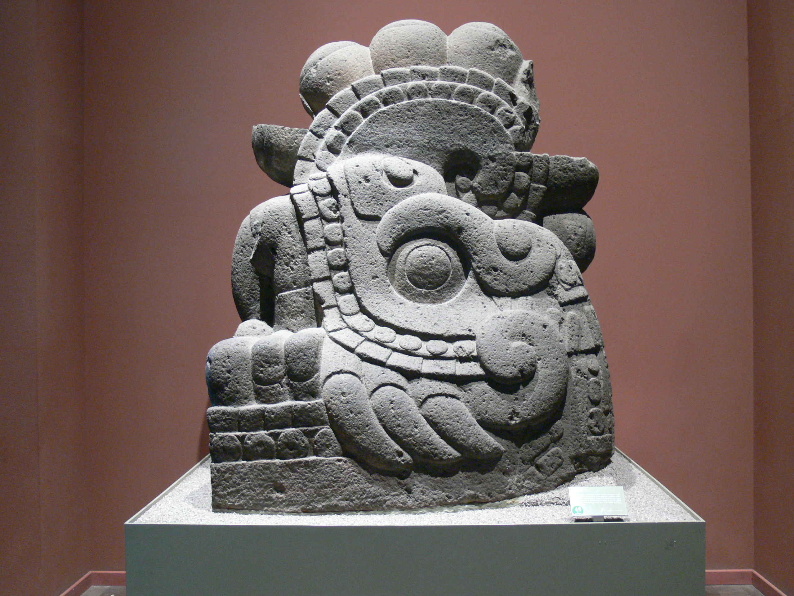 National Museum of Anthropology in Mexico City. The fire serpent Xiucoatl was the principal weapon of the Aztec god-sun Huitzilopochtli.